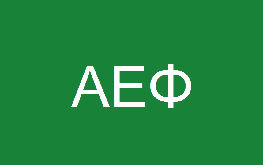 Colored flag, green and white, with the letters of the sorority Alpha Epsilon Phi. Green White